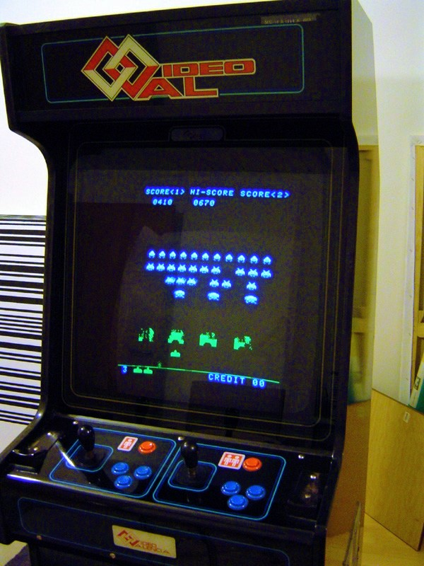 Space Invader cabinet